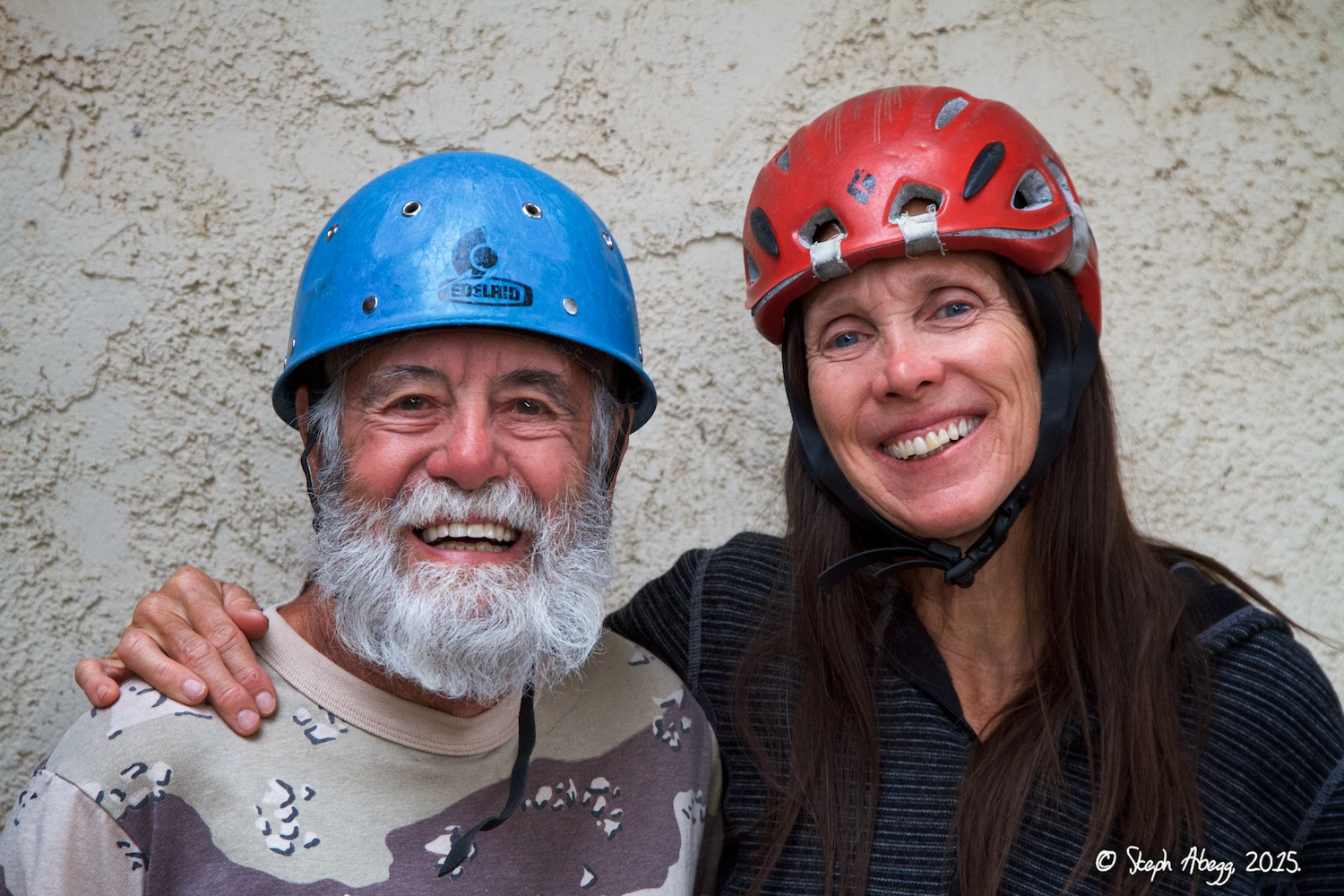 Jorge and Joanne in March 2015. Joanne is 63 and Jorge is 78.